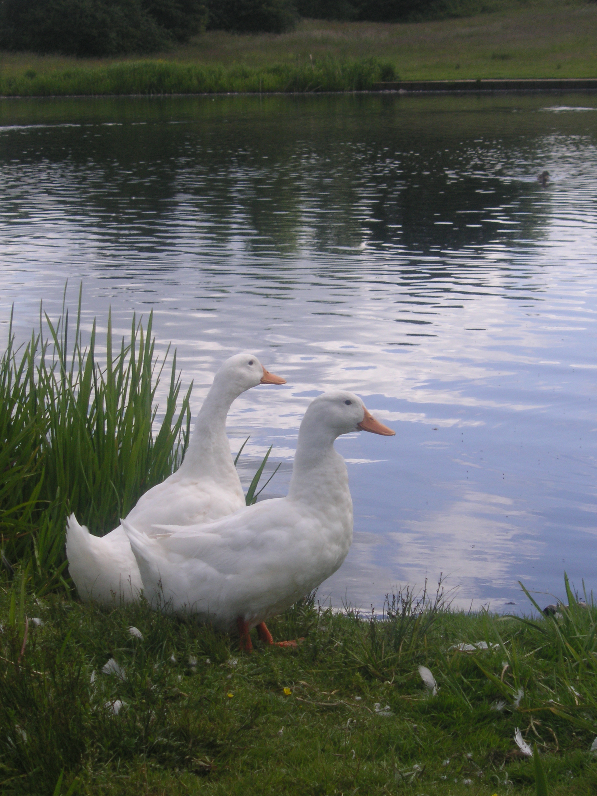 For the moment, they are the rulers of all they survey. Don't let them know, but outside the frame there are about a bajillion other water fowl.